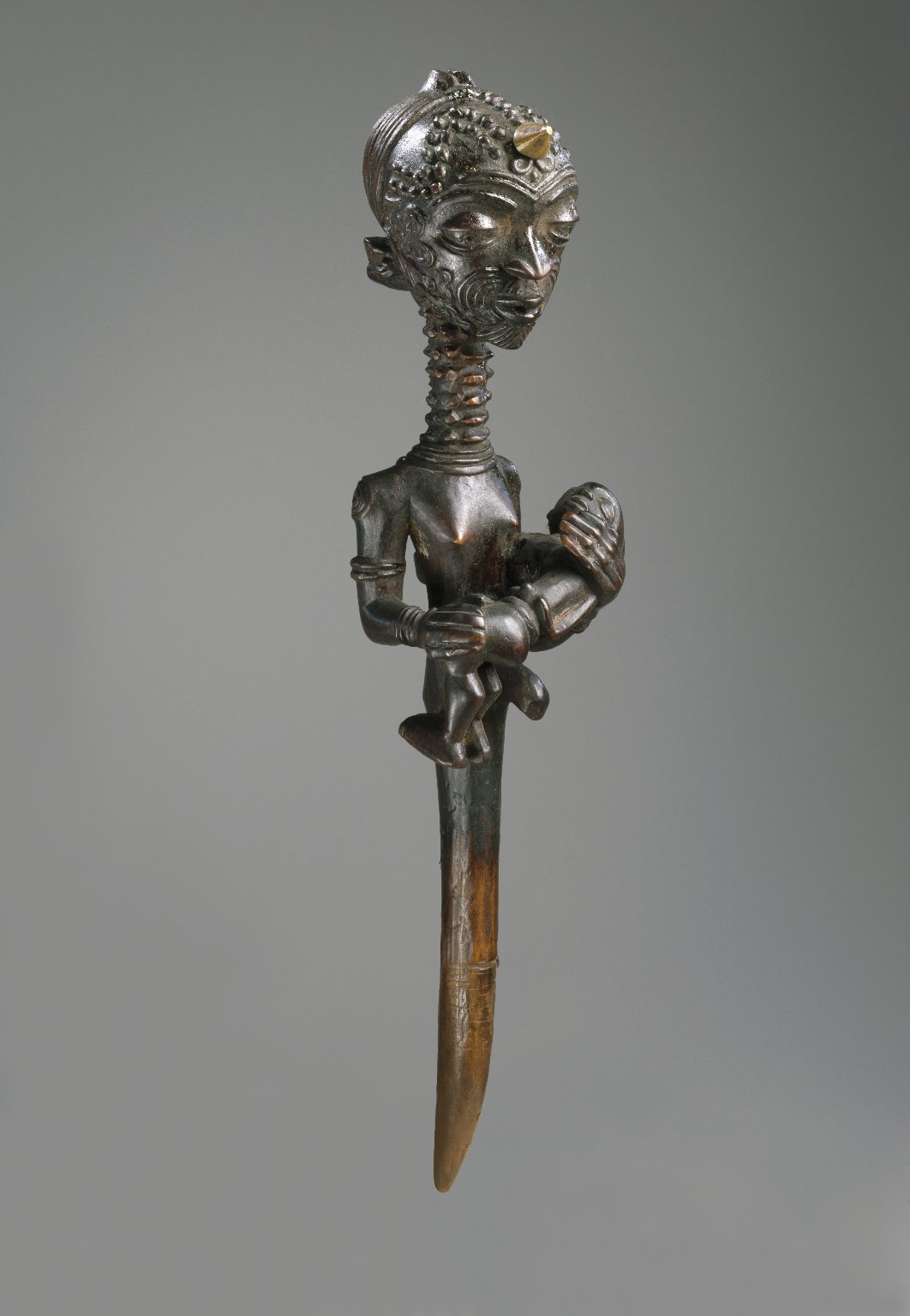 A wood maternity figure of a woman holding a child which twists her arms. The face of the woman shows elaborate scarification. Below the chest the body is not well defined and narrows considerably. The navel is quite prominent but the remainder of the figure is like a staff. There is no indication of the legs etc. Condition: Good. From the waist down there is no body.